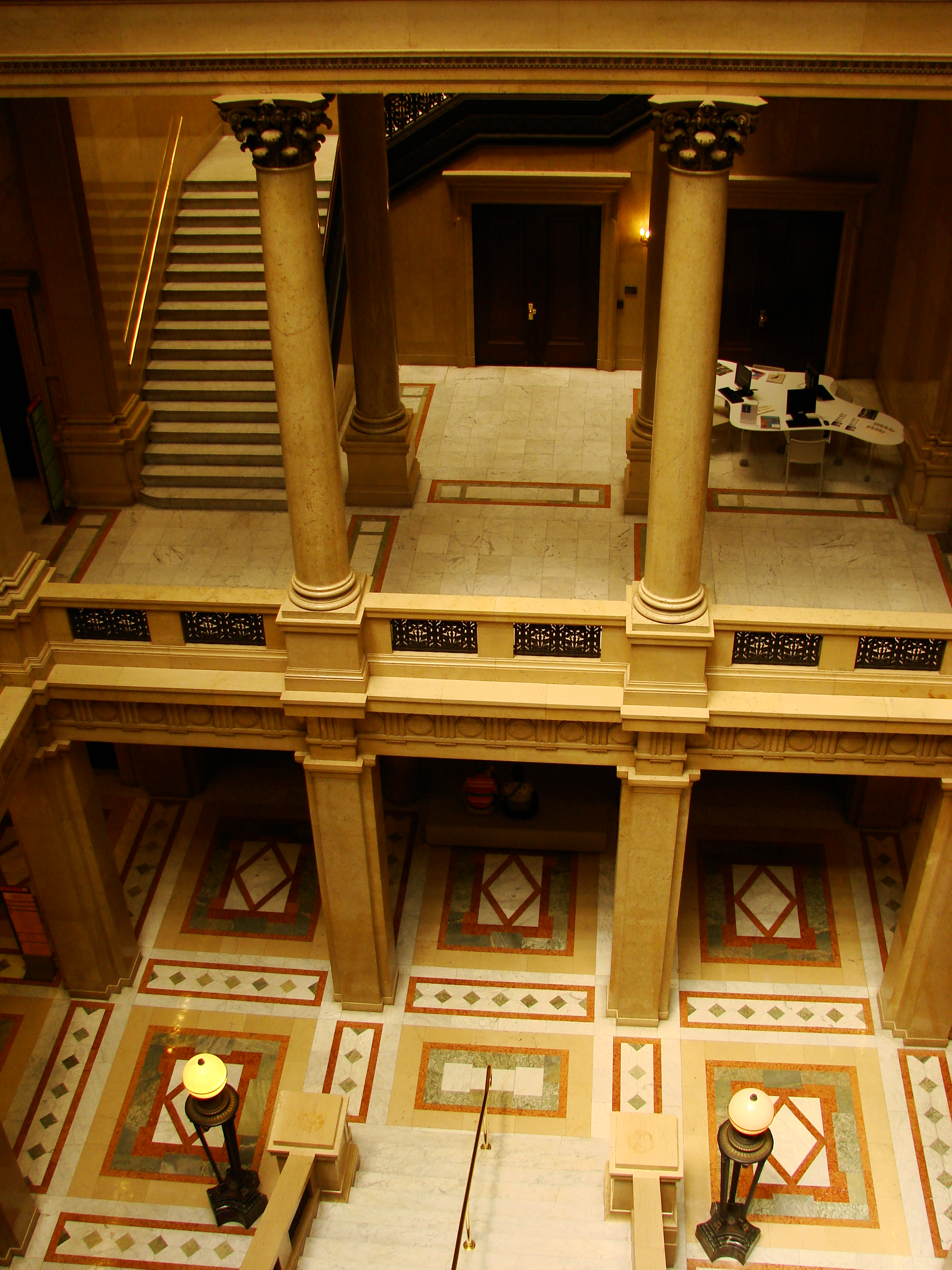 2008-05-25 Pittsburgh 171 Oakland, Carnegie Museum of Art - Museum of Natural History